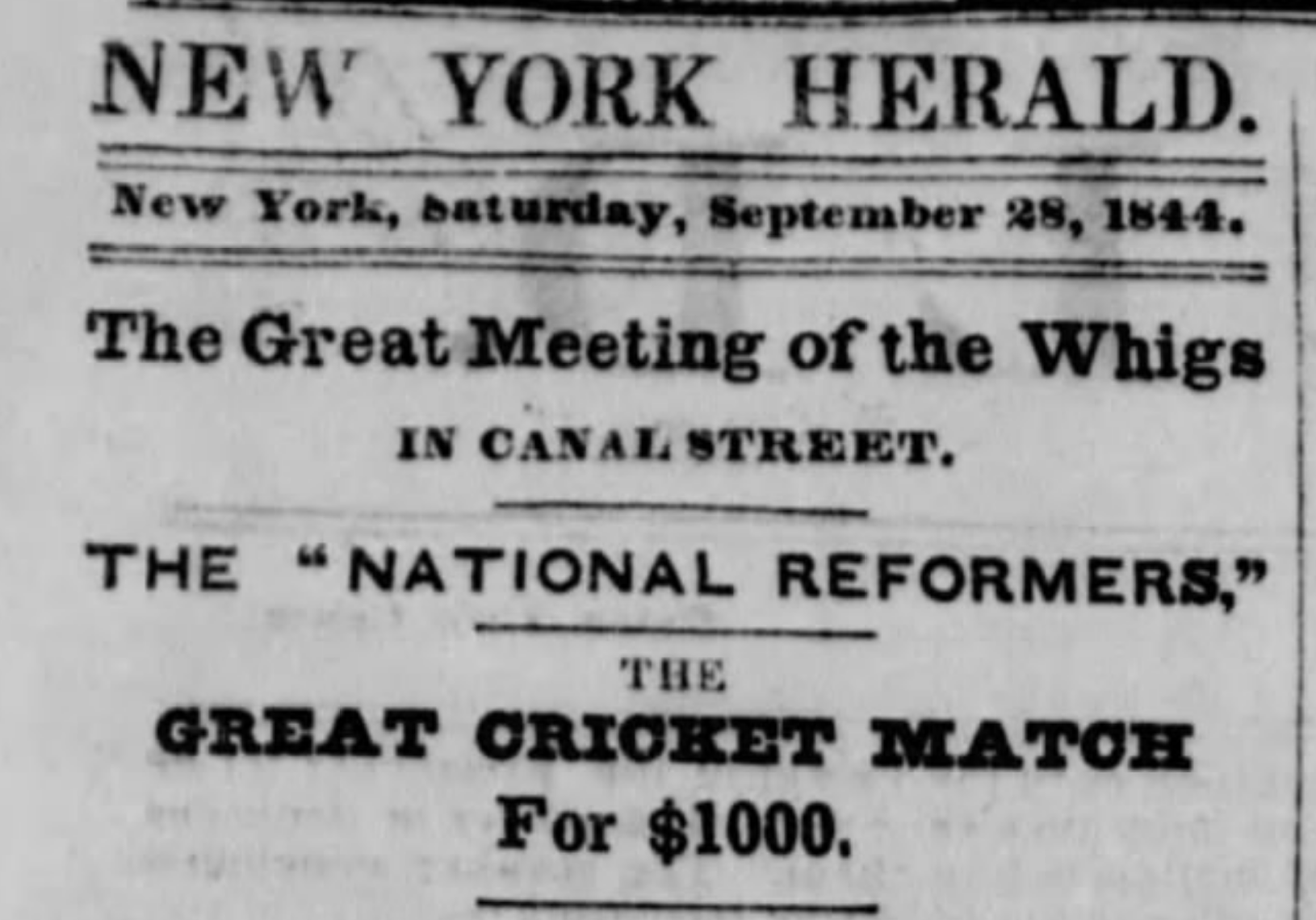 Headline from the New York Herald concerning the first international cricket match between the USA and Canada